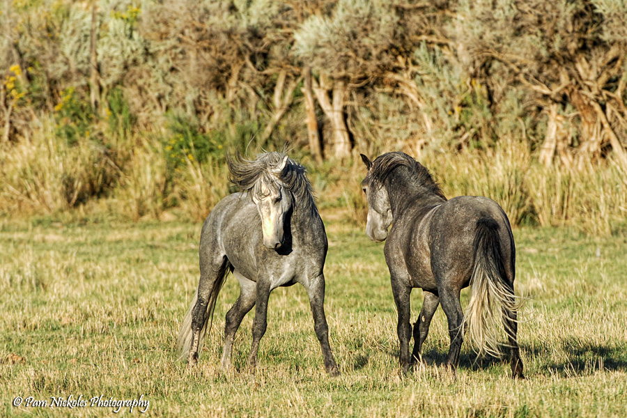 The beautiful wild horses of the Piceance Creek/East Douglas Herd Management Area near Meeker, Colorado. Photo by: Pam Nickoles BLM_Piceance2